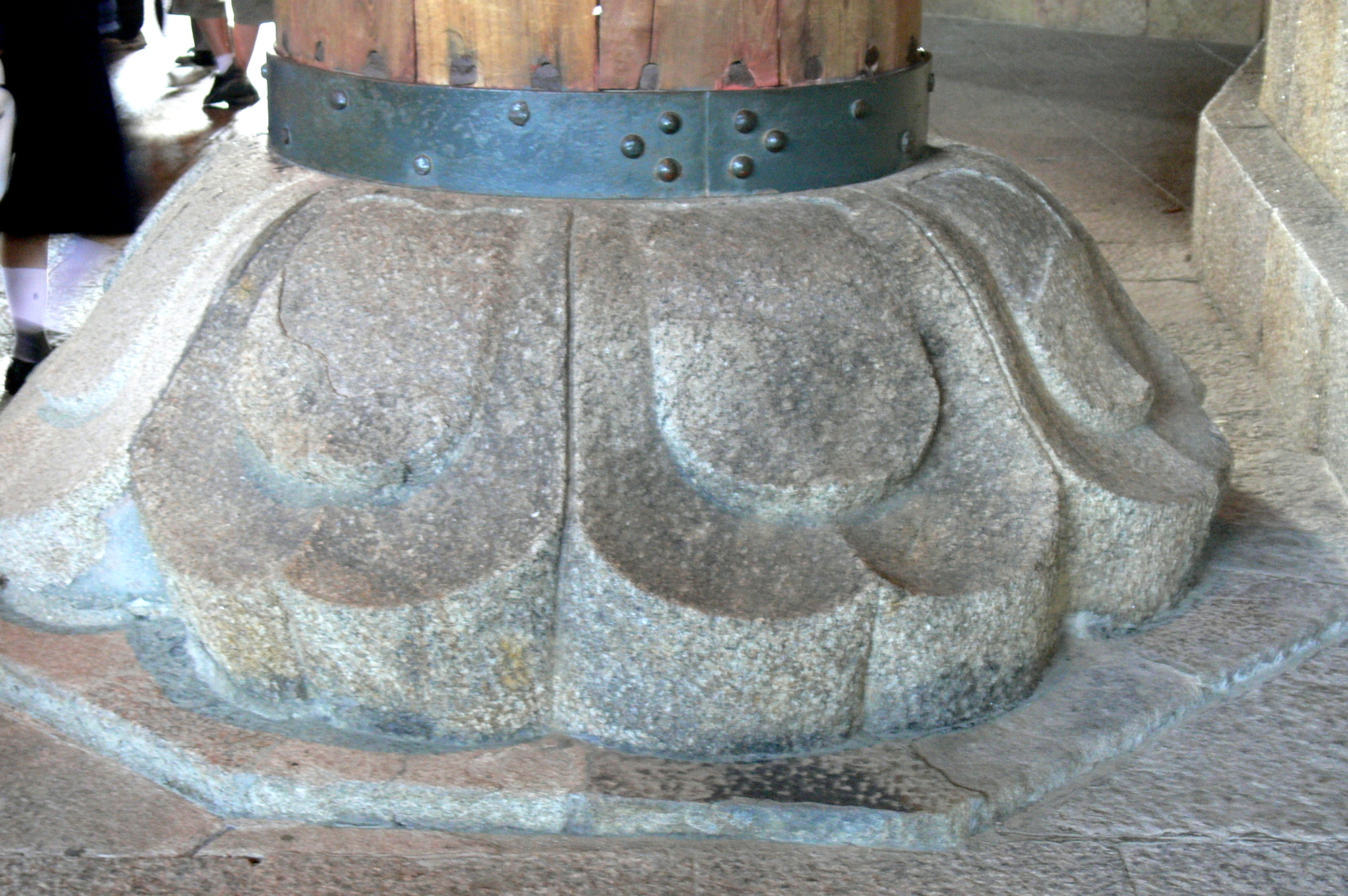 Todai ji column plinth